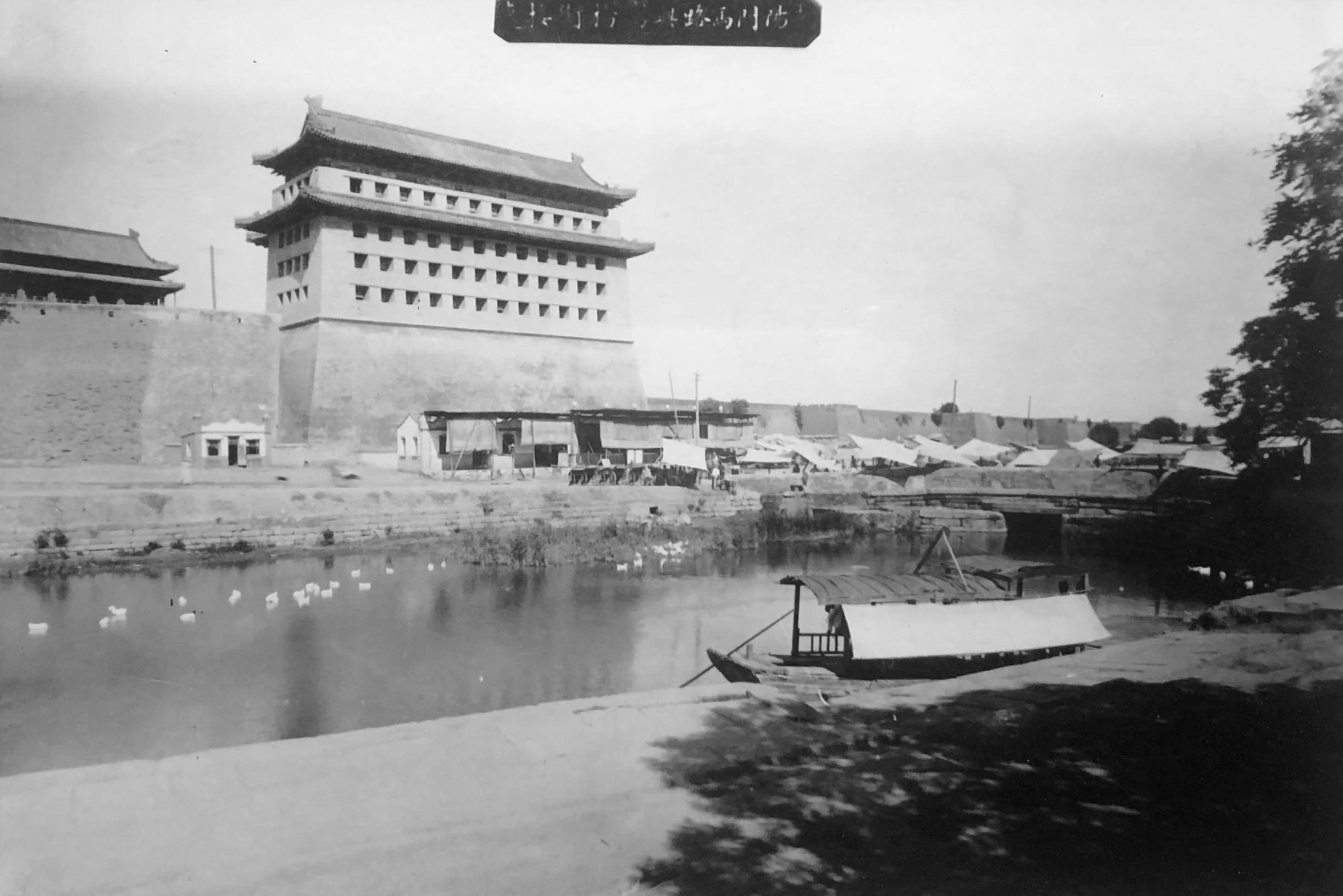 Joint point of Chaoyangmen Street and Diaoqiao, 1917